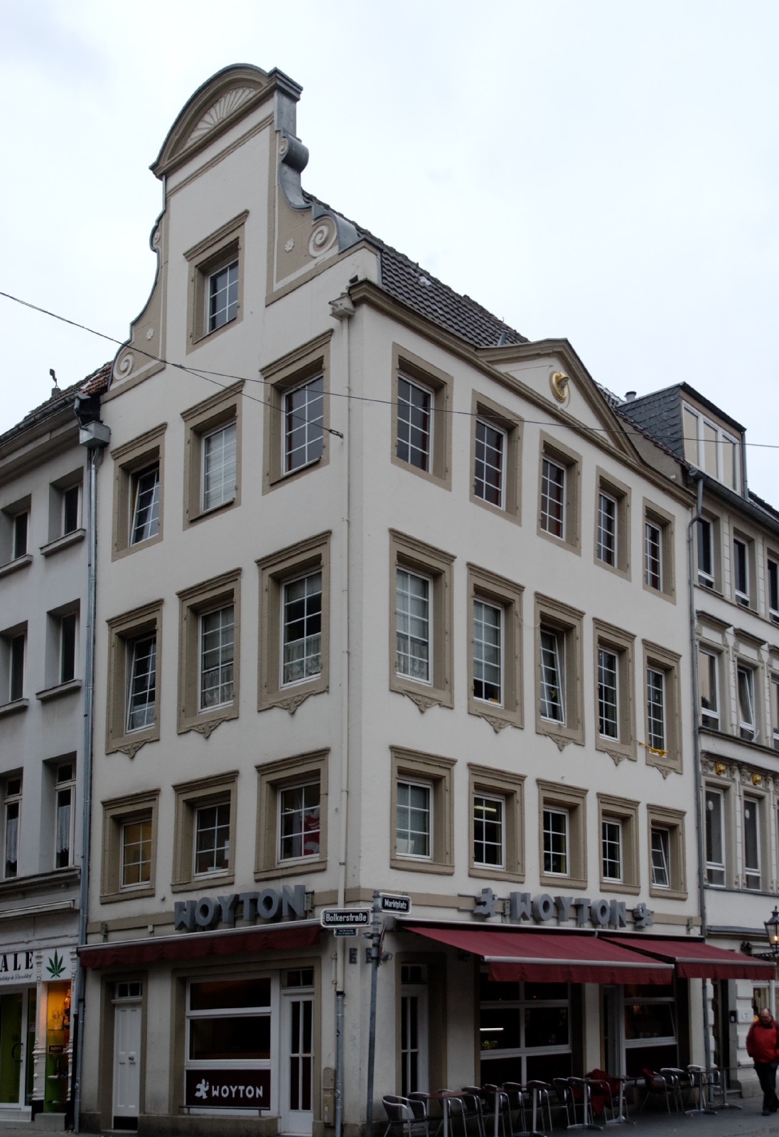 House Marktplatz 12 in Düsseldorf-Altstadt, Germany